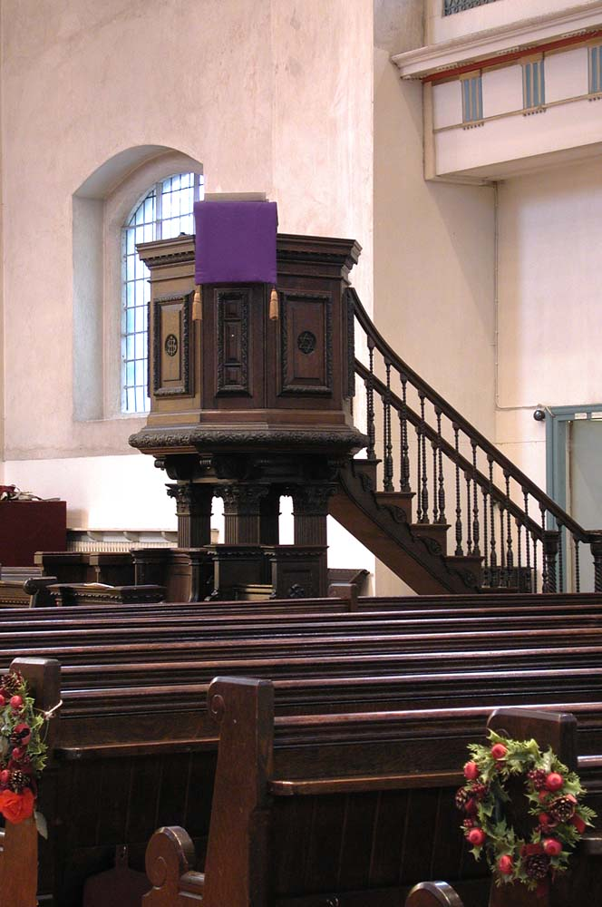 St John at Hackney, Lower Clapton Road, London E8 - Pulpit, near to Hackney, Great Britain.